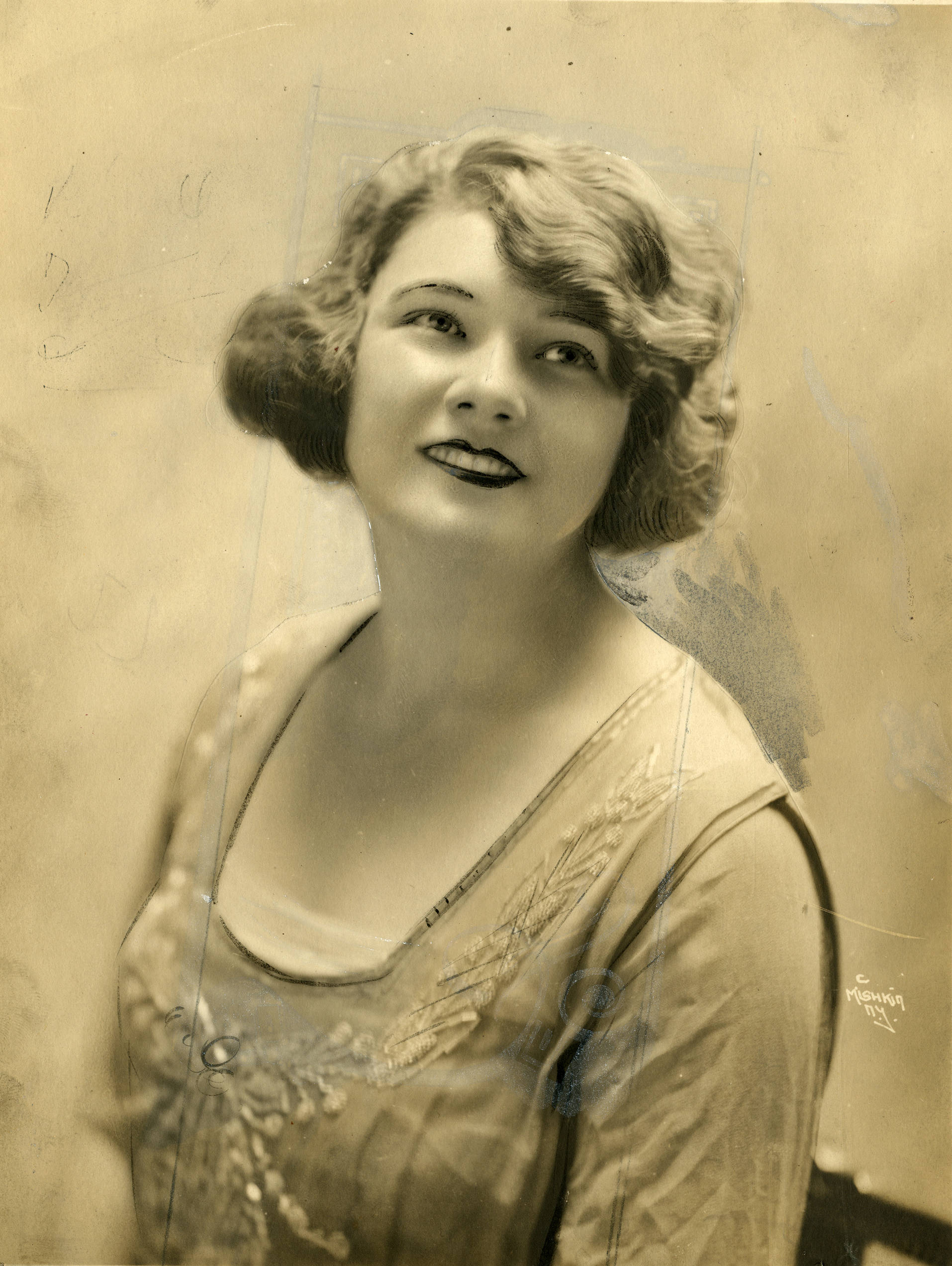 Anne Roselle, opera singer Subjects: singers